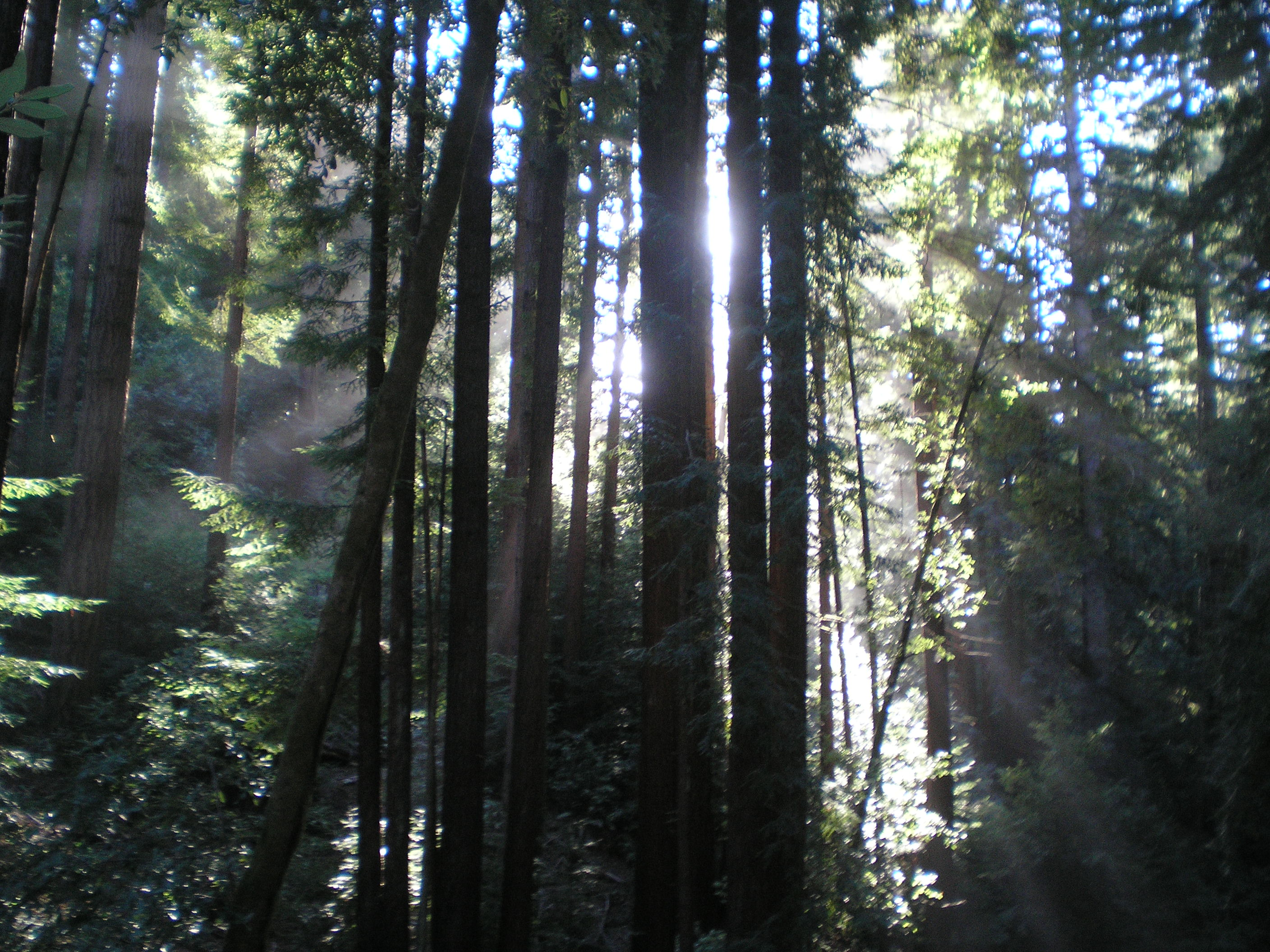 This picture was taken by myself (Jesse Golden) at Swanton Pacific Ranch.